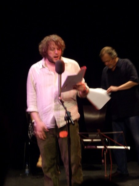 James Bachman at a recording of the BBC Radio 4 comedy pilot 'Zoom' in May 2008. Behind him can be seen David Soul, who was also in the production.